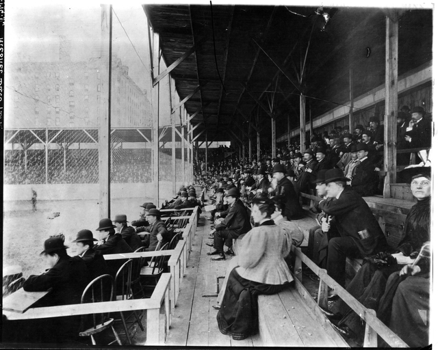 Spectators at a baseball game at Athletic Park on Fifth Street North and First Avenue North, Minneapolis, c. 1894-1896.